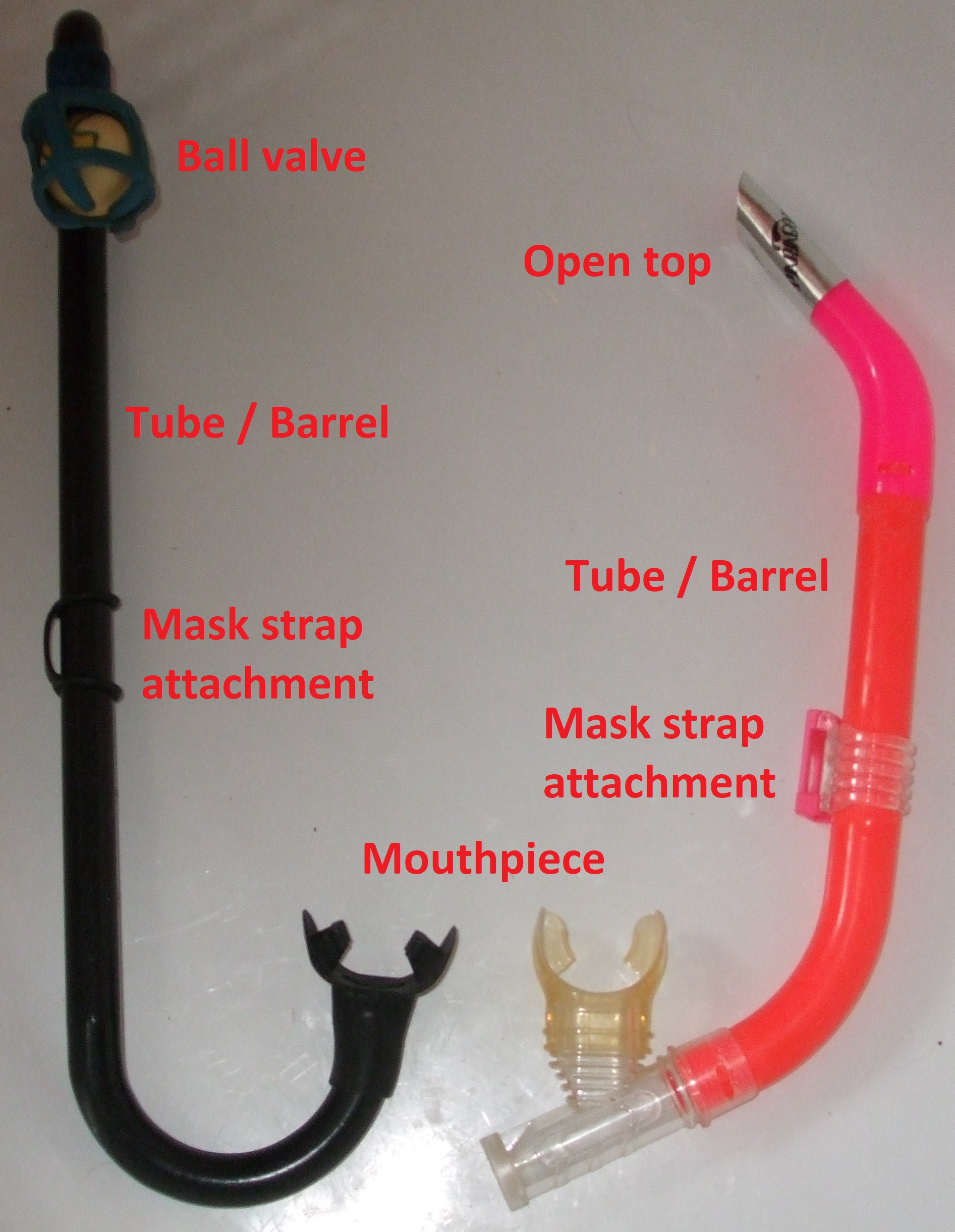 A pair of side-mounted snorkels for swimmers and divers exemplifying older and newer versions of this breathing device with their principal and additional parts labelled: Tube / Barrel; Mouthpiece; Mask strap attachment; Valve(s), if any.